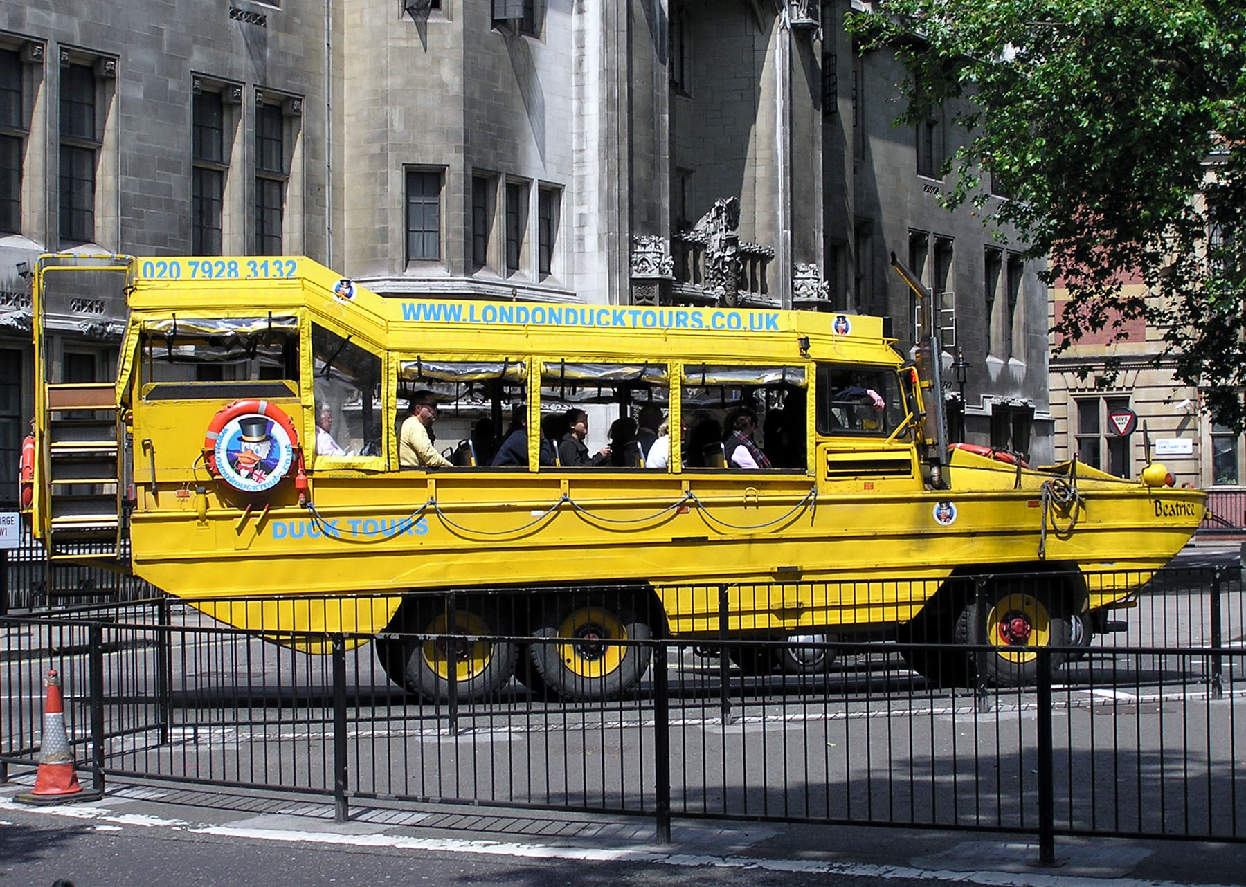 A DUKW on a 75 minute tourist trip around London. Part of the trip is on the River Thames. This DUKW was built in 1945 in the USA by General Motors but has been rebuilt for the tourist trade. It carries 30 passengers. The engine is a 4.0 litre diesel. Photographed by Adrian Pingstone in June 2005 and released to the public domain. "Beatrice"